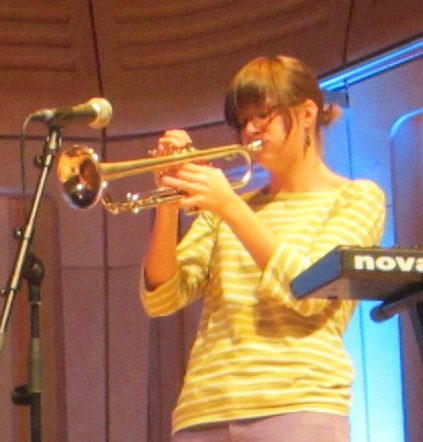 Trumpet player Laura Jurd shown playing at the Dora Stoutzker Hall, Royal Welsh College of Music & Drama in Cardiff.